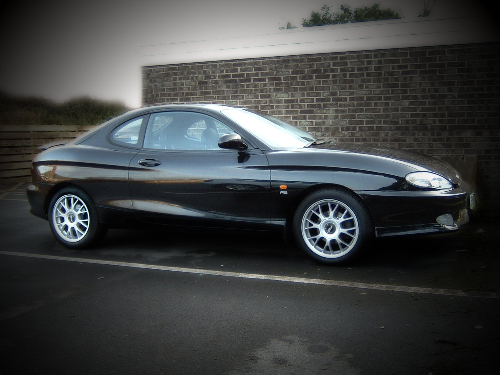 Image showing a 1998 Hyundai Coupe F2 in original condition, including factory DTM style alloys with "F2" centre-caps.